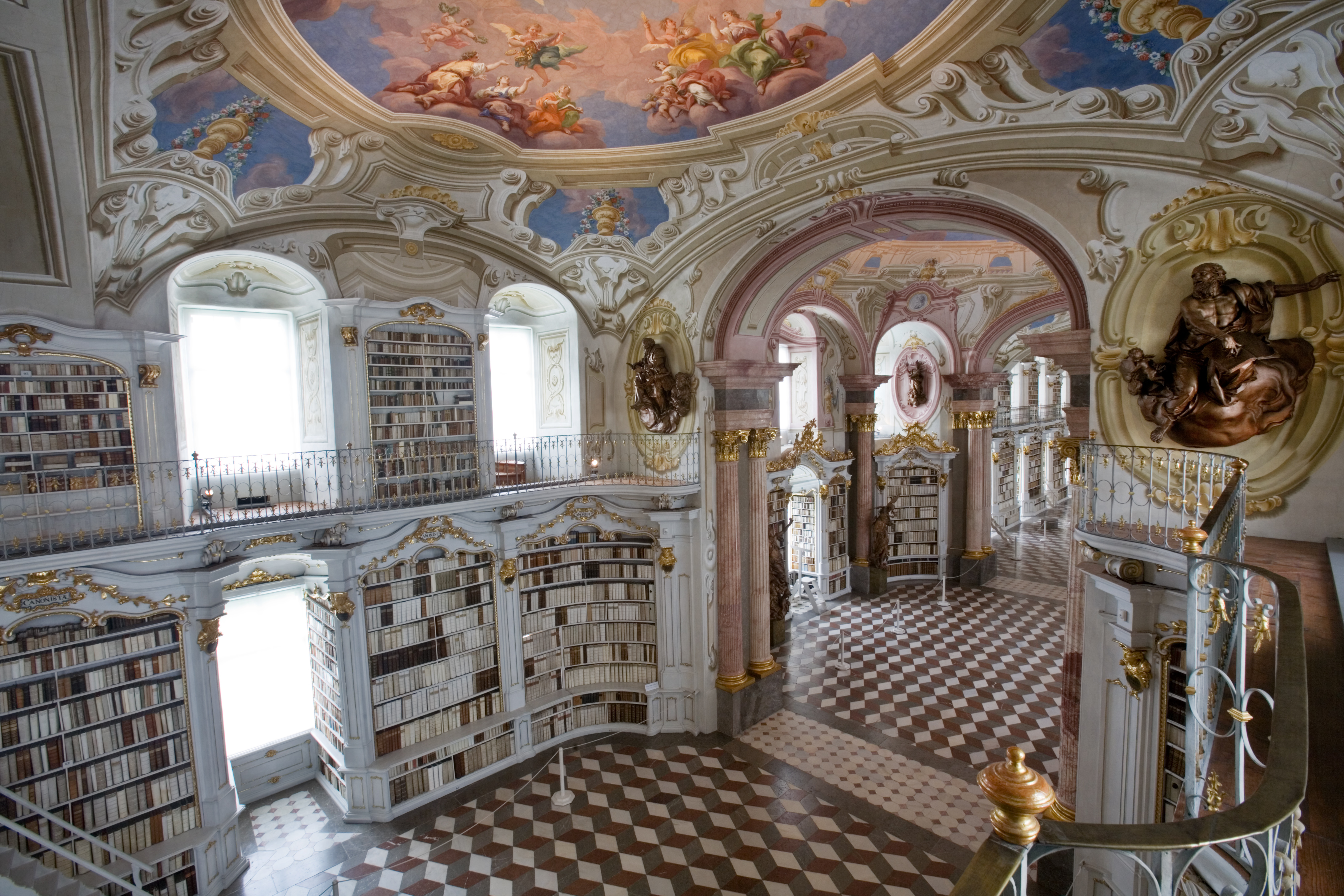 Admont Abbey Library, Austria